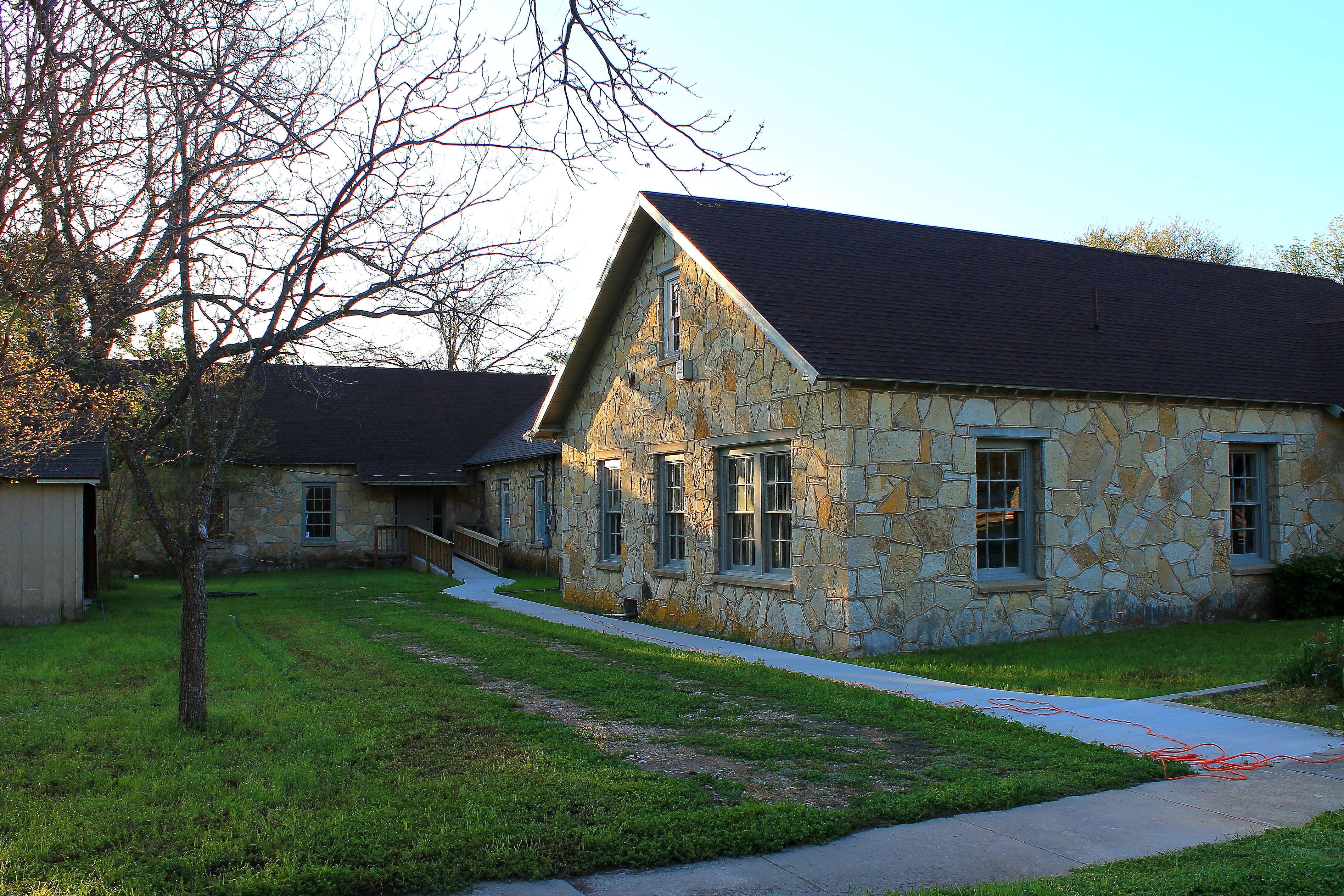 Barnard's Mill